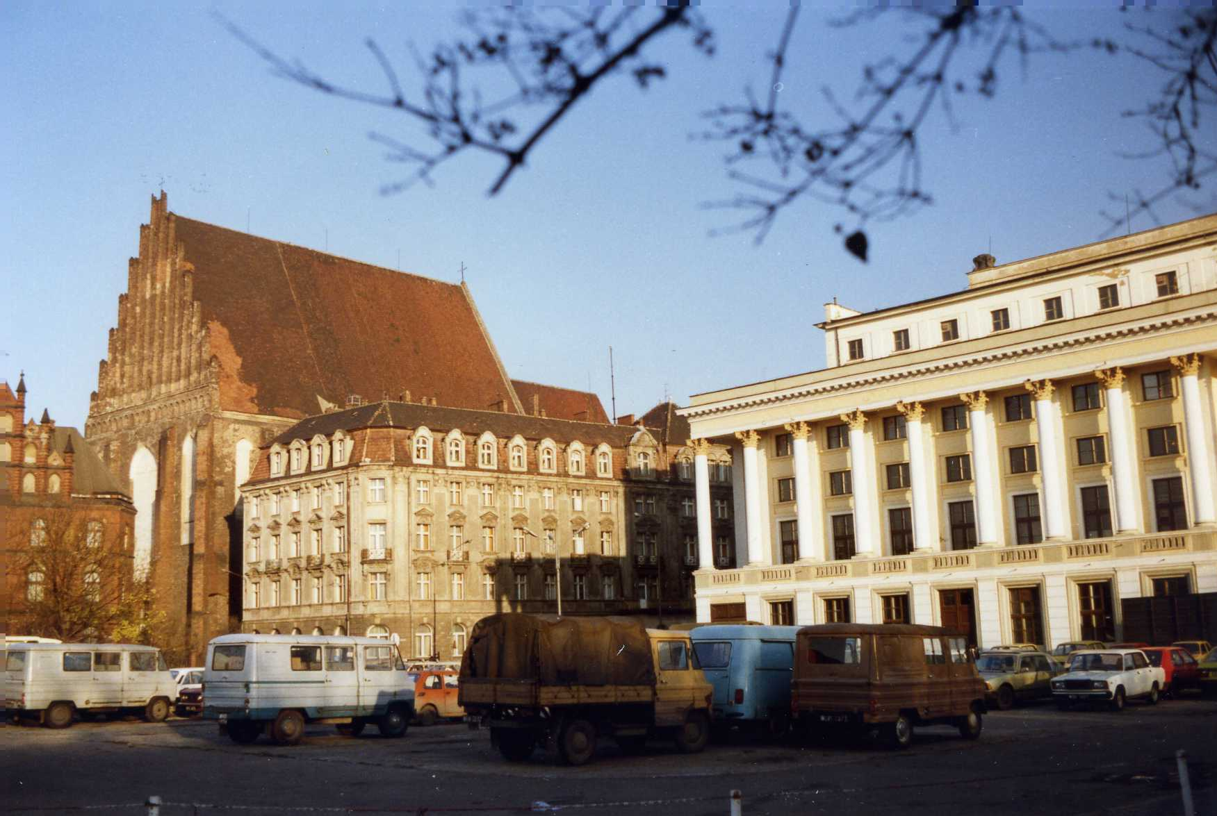 A group of vehicles in parking lot in Wrocław. From the left: FSC Żuk, Polski Fiat 125p, FSC Żuk, Polski Fiat 126p, FSC Żuk, ZSD Nysa 522, FSC Żuk.